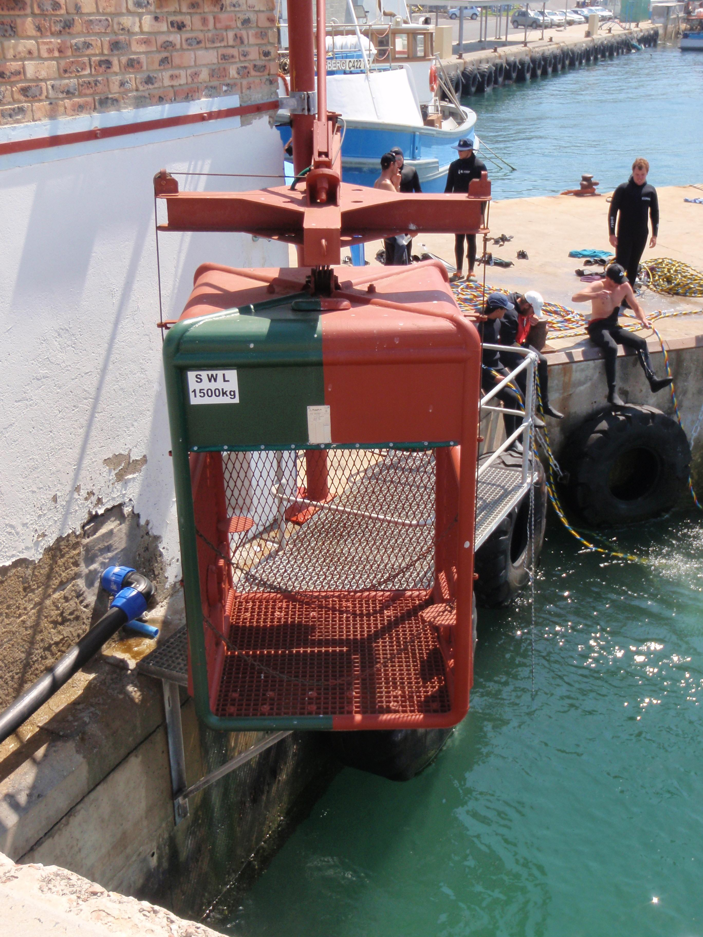 A wet diving bell at a dive school in a harbour.